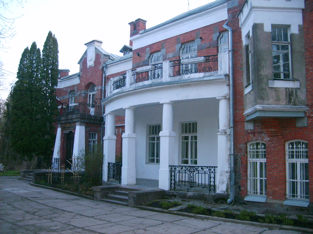 Lūznava manor house in 2007.